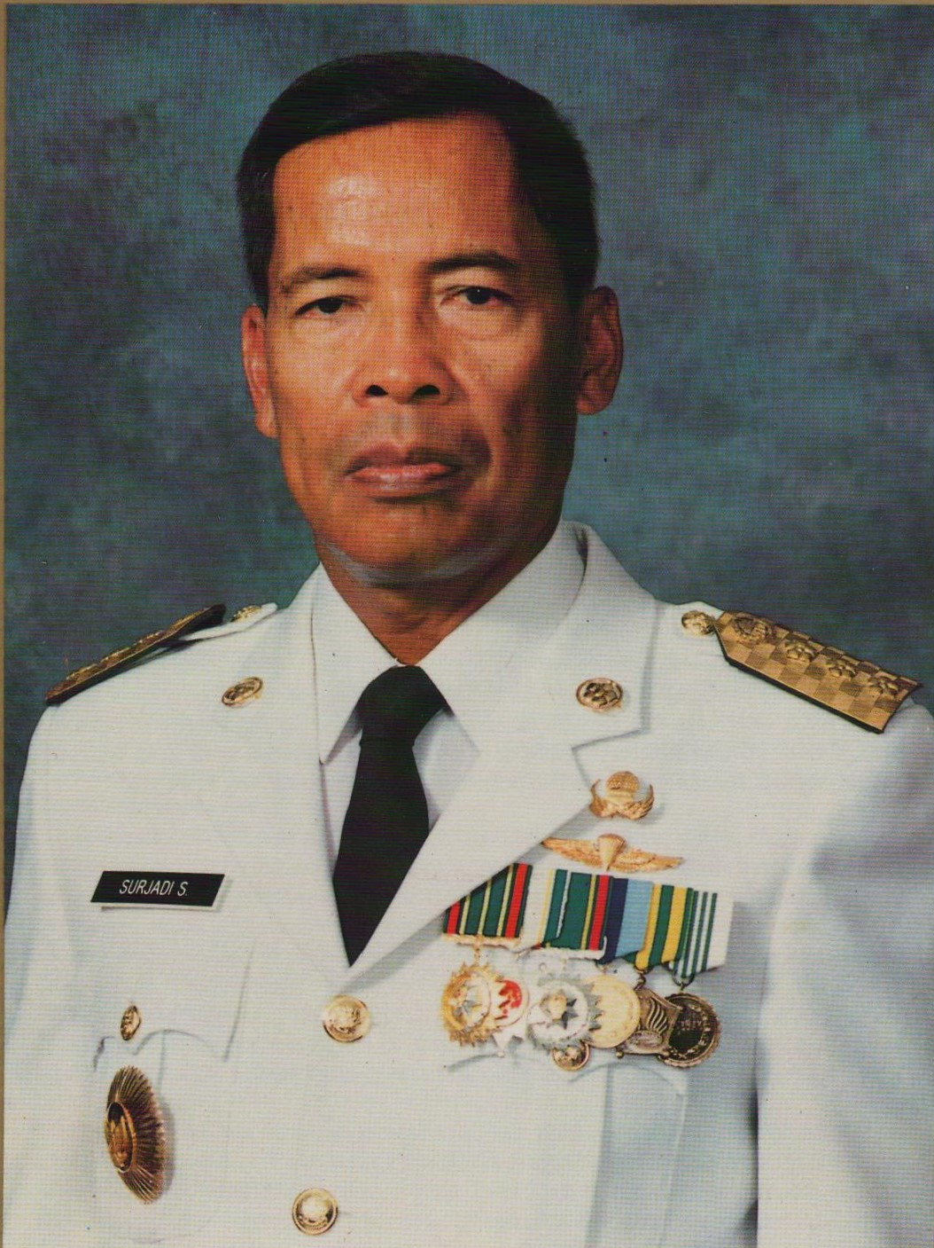 Soejadi Soedirdja as Governor of Jakarta taken from Book 'Press Reflection of Jakarta District Head 1945-2012: Surjadi Soedirdja Governor 1992-1997'